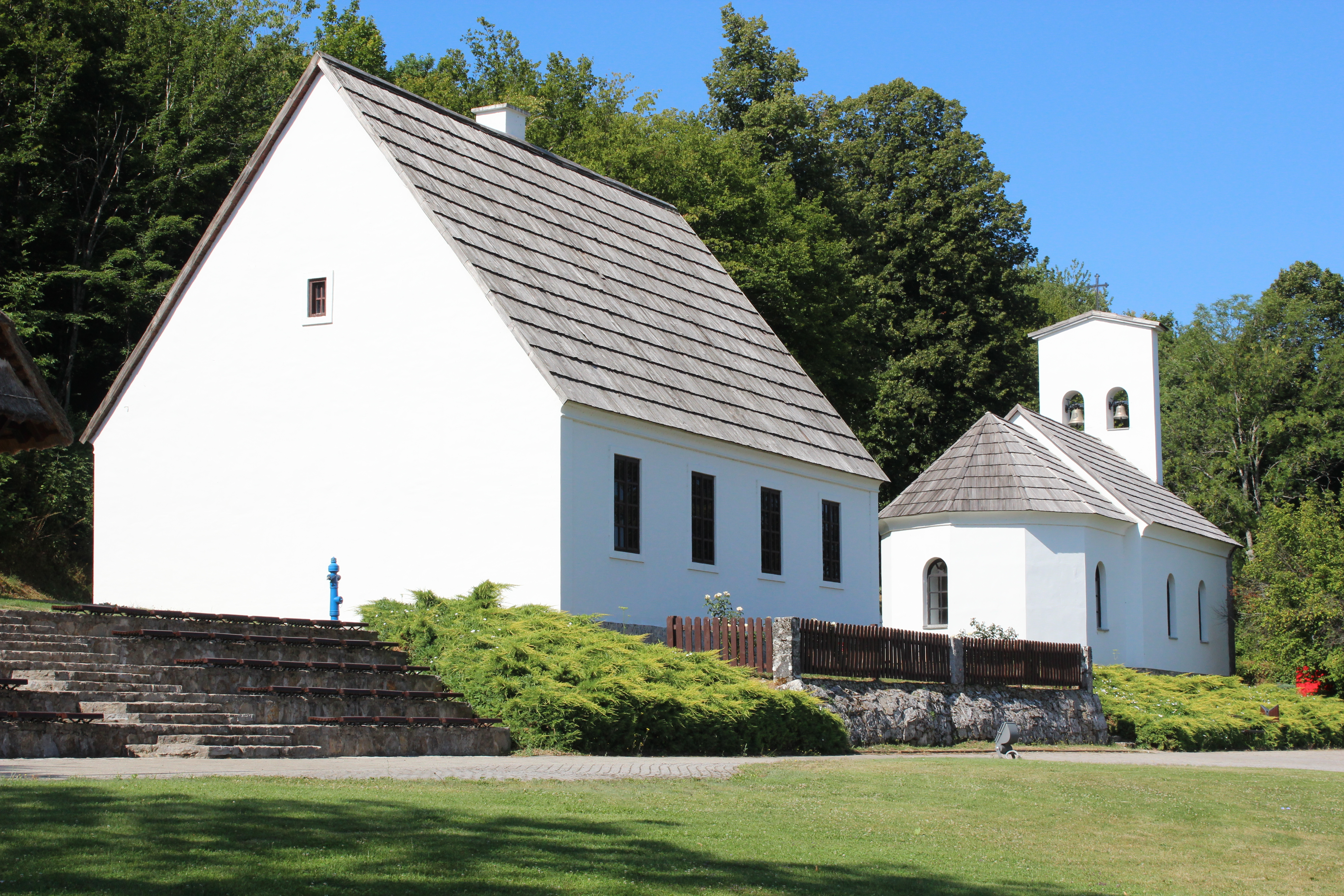 Rebuilt birth house of Tesla and Serbian church of the village in Nikola Tesla Memorial Center (Smiljan, Croatia).